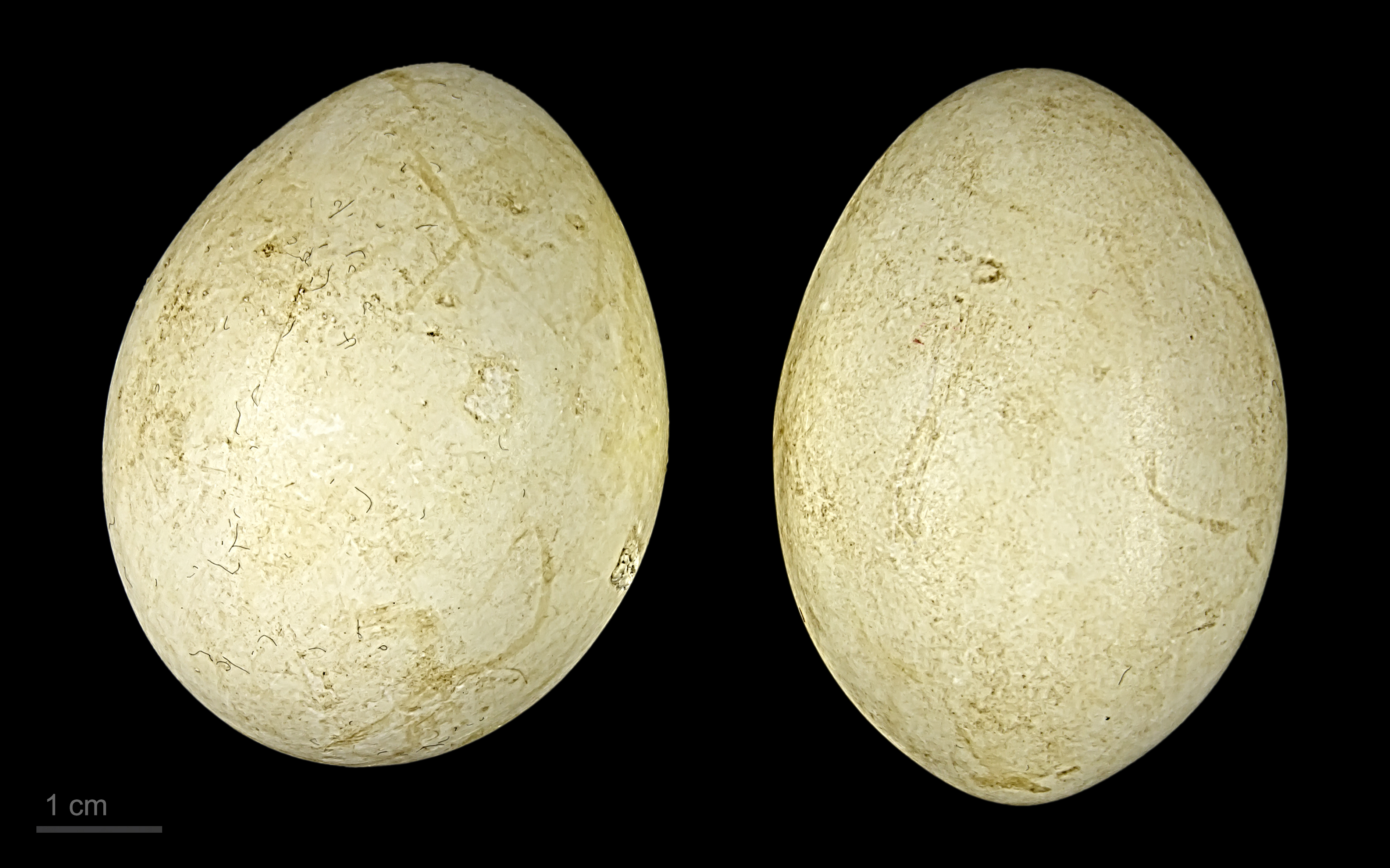 Eggs of spotted whistling duck Two specimens of the same spawn ; collection of Jacques Perrin de Brichambaut.